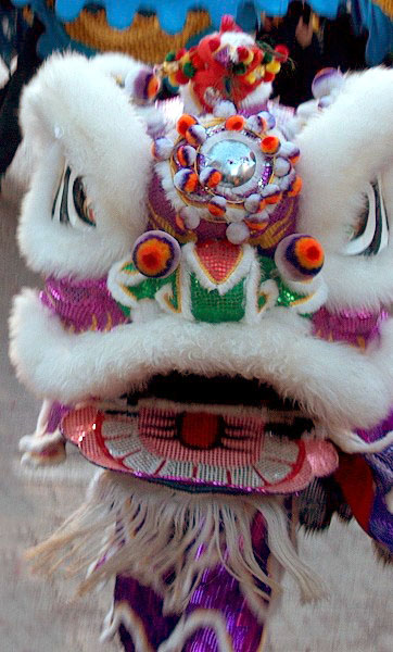 Detail of Chinese Lion Dance Costume in February 2003.